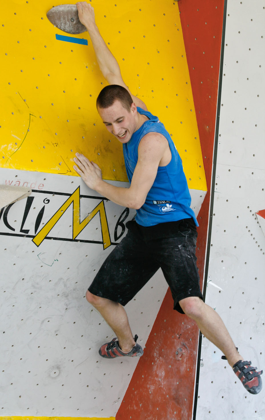 Max Adrian Rudigier during qualifications at the IFSC Boulder Worldcup Vienna 2010.